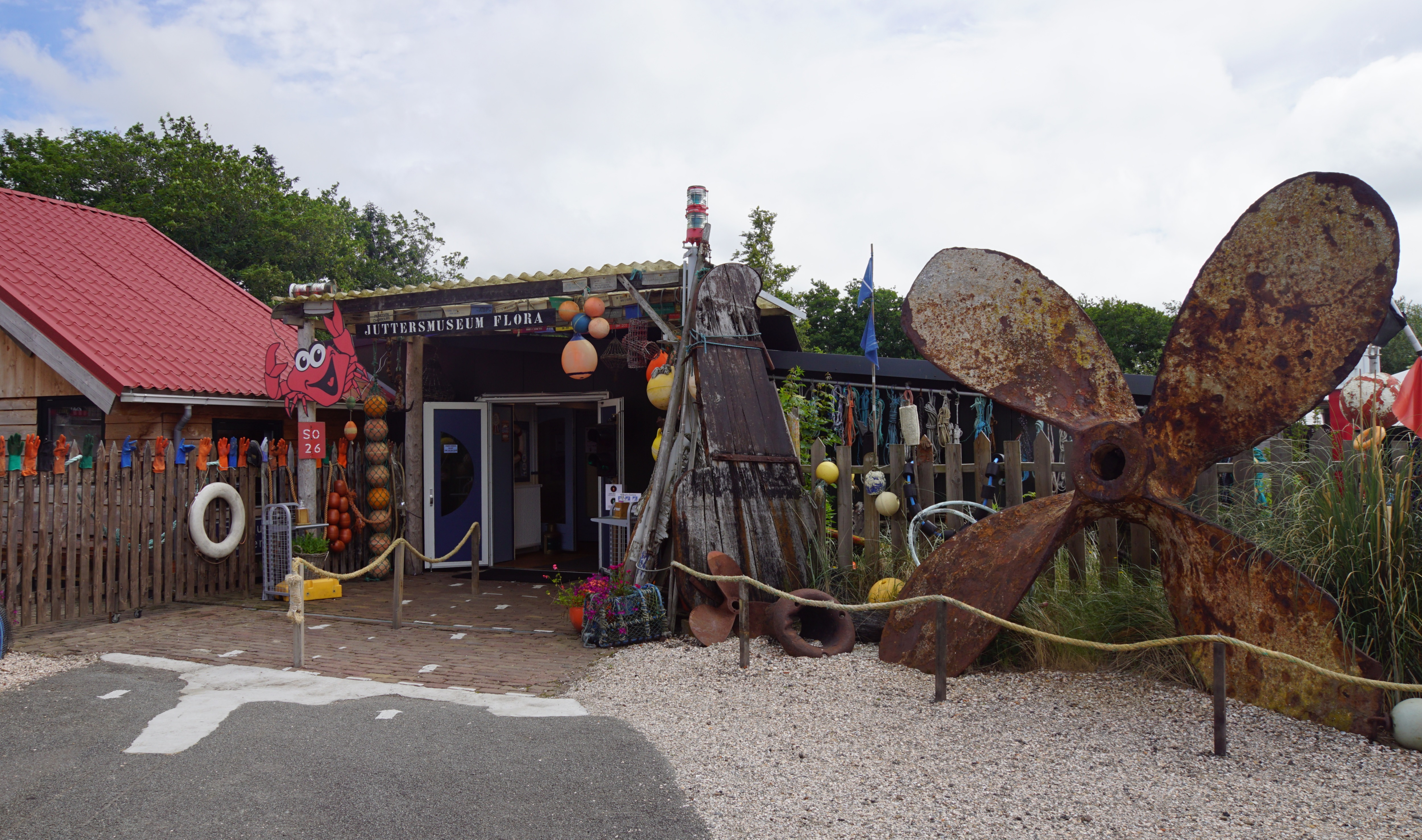 Schipbreuk- en Juttersmuseum Flora, De Koog, Texel, The Netherlands. Entrance.